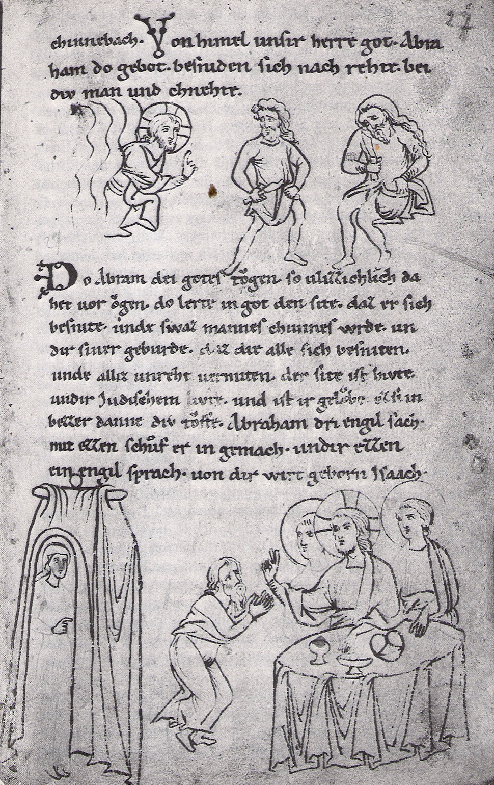 Page of the „Millstätter Handschrift“, a manuscript on parchment produced around the year 1200 in the Millstatt Abbey near Spittal an der Drau / Carinthia / Austria / EU.